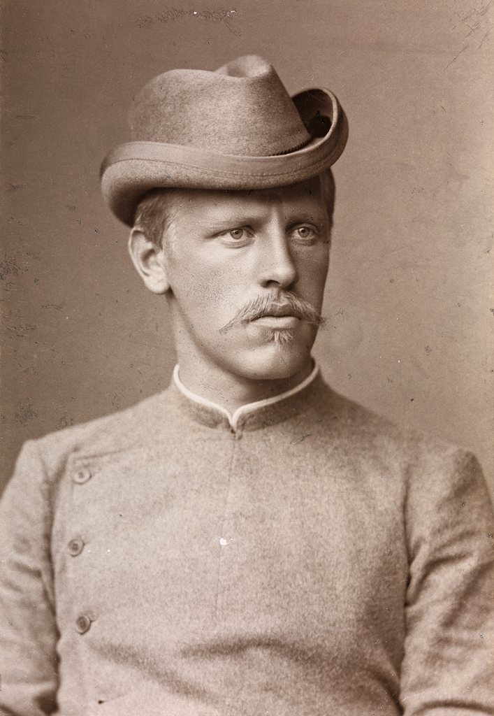 Tittel / Title: Portrett av Fridtjof Nansen Motiv / Motif: Fridtjof Nansen Dato / Date: 1889 Fotograf / Photographer: Ludwik Szacinski de Ravics (1844-1894) Sted / Place: Oslo Eier / Owner Institution: Nasjonalbiblioteket / National Library of Norway Lenke / Link: Bildesignatur / Image Number: no-nb_bldsa_1a014